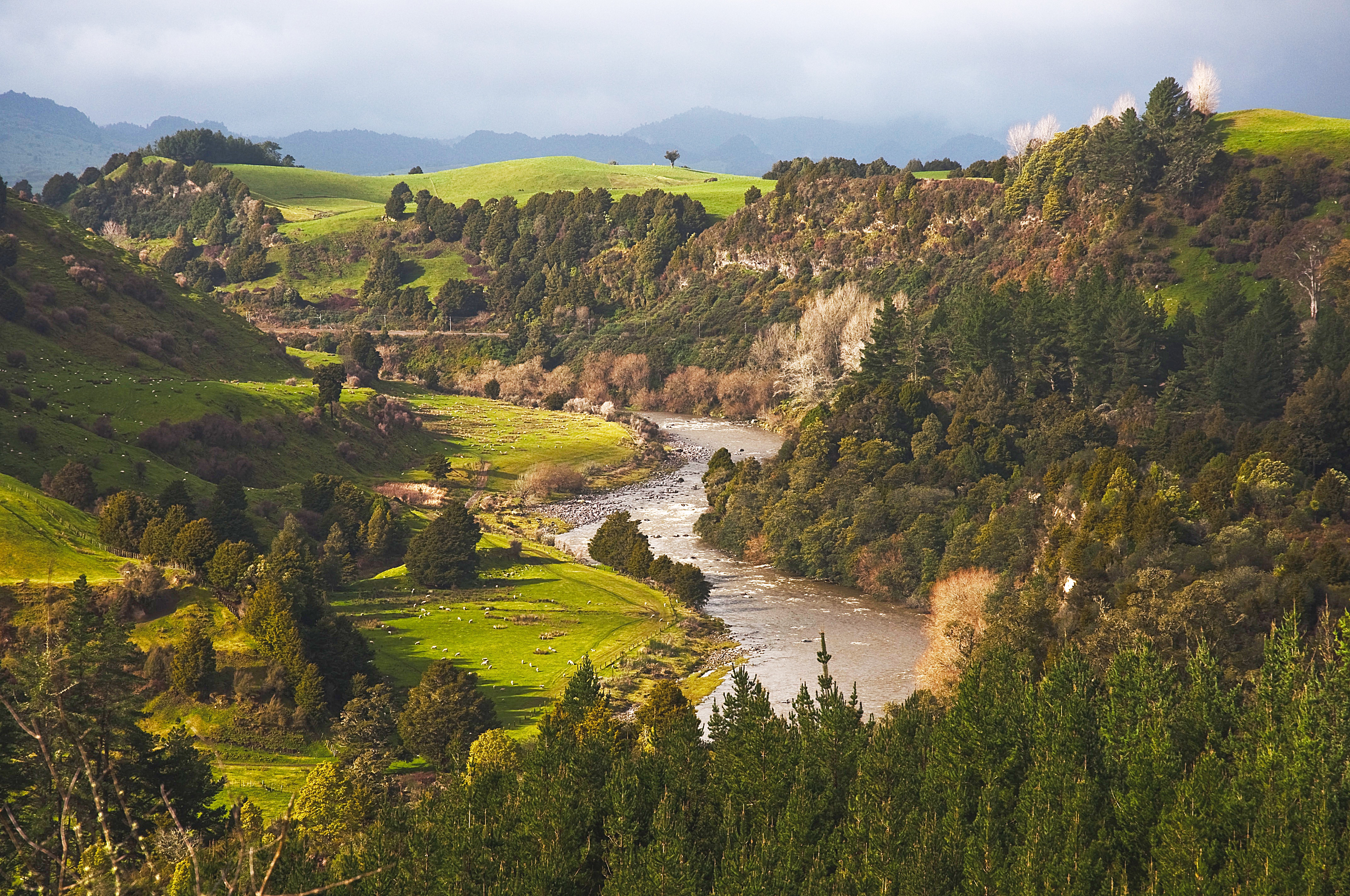 Ongarue, King Country, New Zealand, 9 July 2011